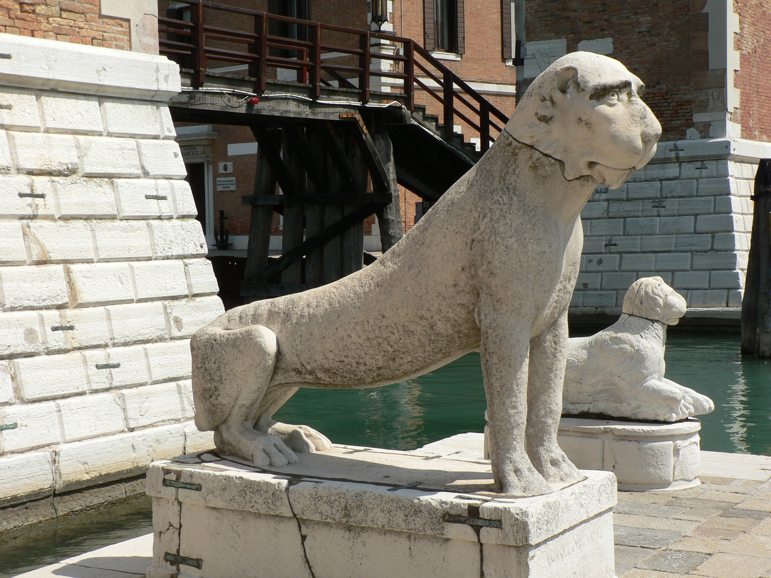 The second lion standing at the right side of the monumental entrance of the Arsenale in Venice. It is an Ancient Greek sculpture dating back to the 6th century BC, from Delos (the head was added in late 17th century). It was brought to Venice by Francesco Morosini, who conquered Athens and the Peloponnesus in 1694.